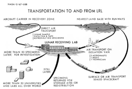 NASA slide from 1967 showing the operation of the Lunar Receiving Laboratory